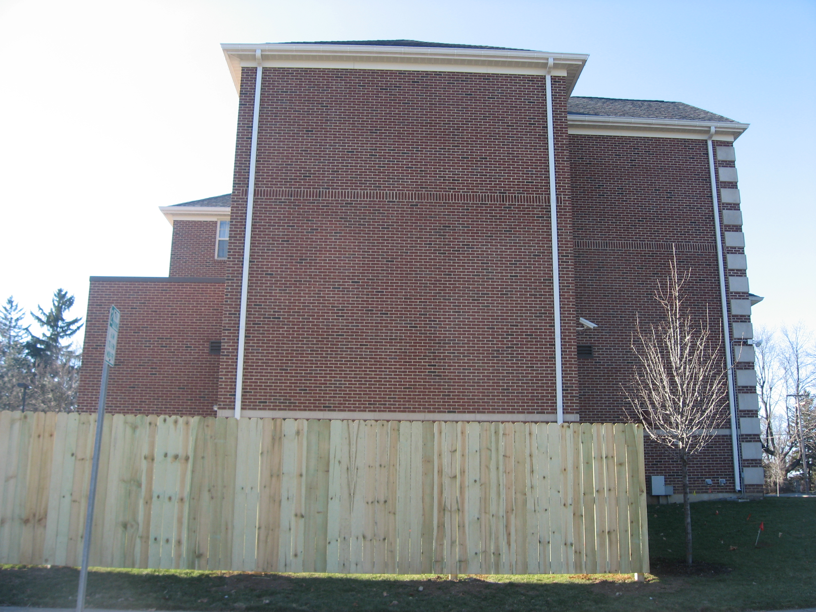 Side of the Sigma Tau Gamma fraternity house at Ball State University, located at 1101 Riverside Avenue in Muncie, Indiana, United States. It occupies the site of the John Valentine House, which was built in 1918; it was listed on the National Register of Historic Places in 1983 and was removed from the Register in 2014 following its destruction.